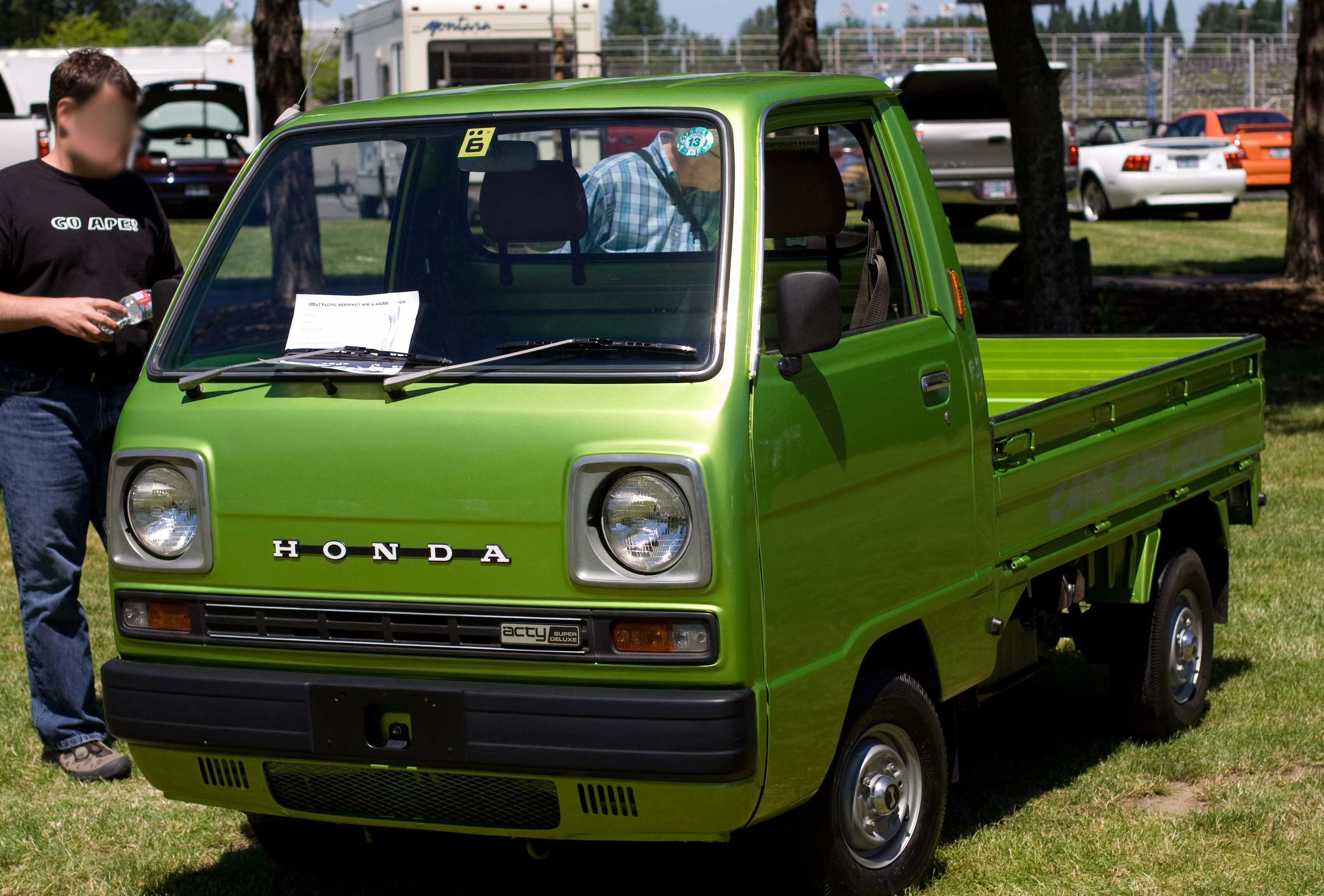 1977-1982 first generation Honda Acty Super Deluxe